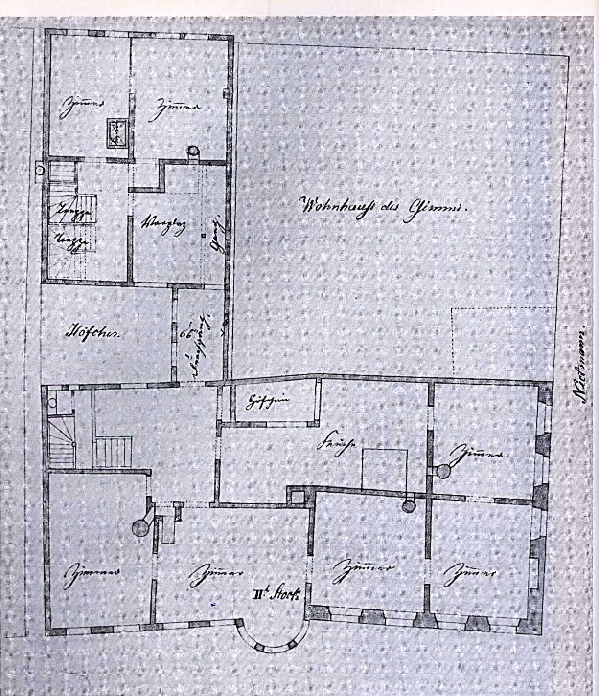 Wohnhaus Robert Mayer, Kirchöfle Nr. 13 Heilbronn, Grundriss, 1841.JPG